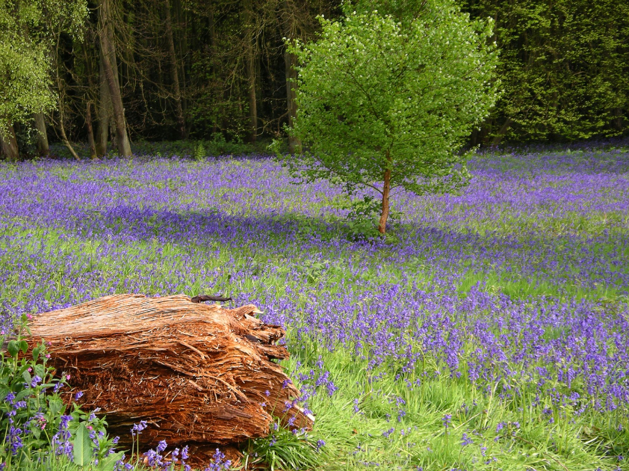 Bluebells (Hyacinthoides non-scripta), Shrawley woods, Worcestershire, UK.